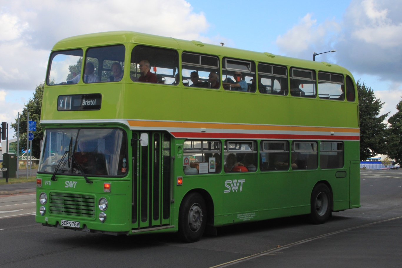 A Bristol VRT, formerly number 978 in the South Wales Transport fleet (registration BEP978V) at the Bristol bus rally.